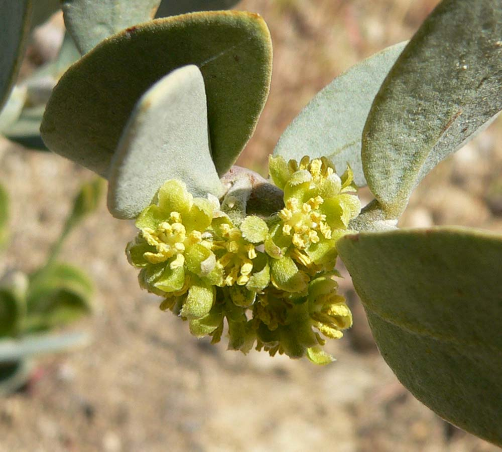 Photo of Simmondsia chinensis (jojoba) male flowers in Palm Canyon, California